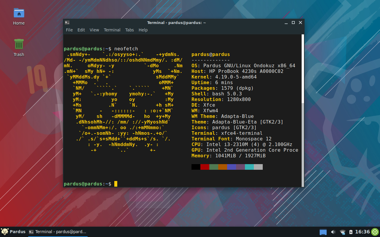 A preview of Pardus GNU/Linux 19.0 with Xfce Desktop.